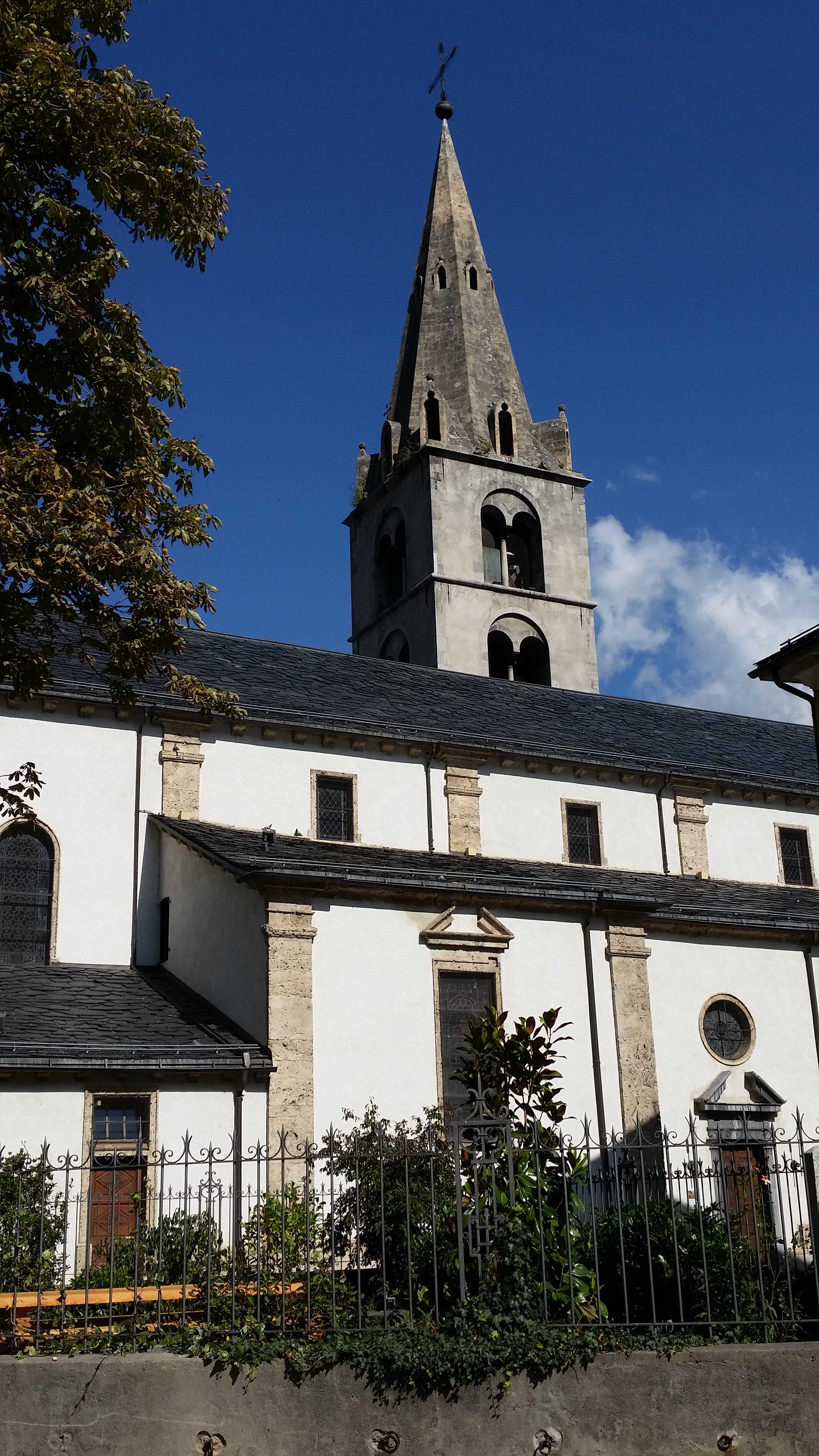 Église Notre-Dame des Champs